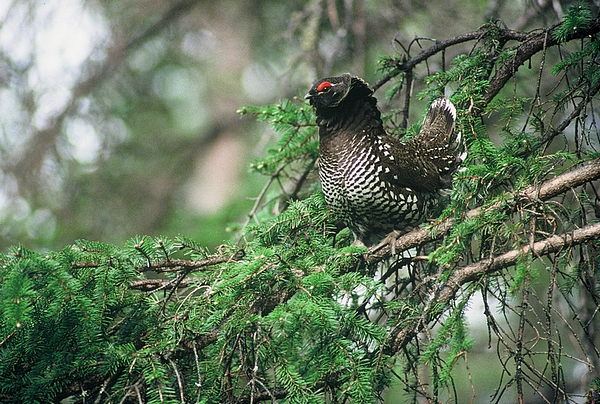 Male Siberian Spruce Grouse displaying